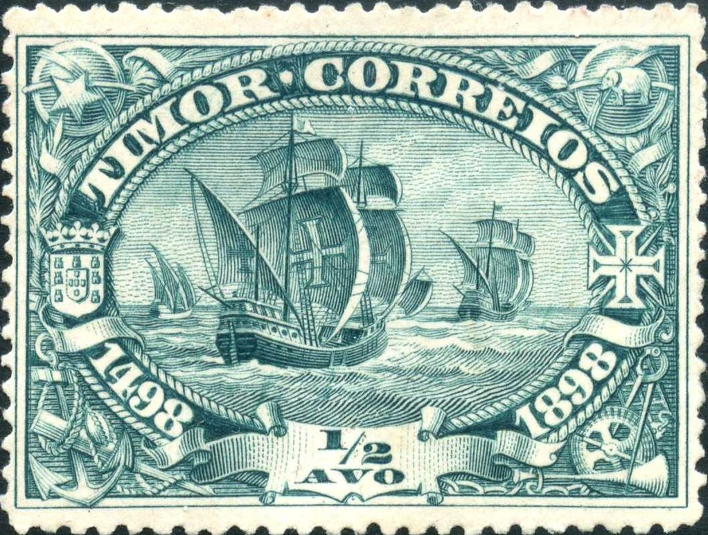 Postage stamp of Timor, 1898. 400th anniversary of Vasco da Gama’s discovery of the route to India. Scott #45